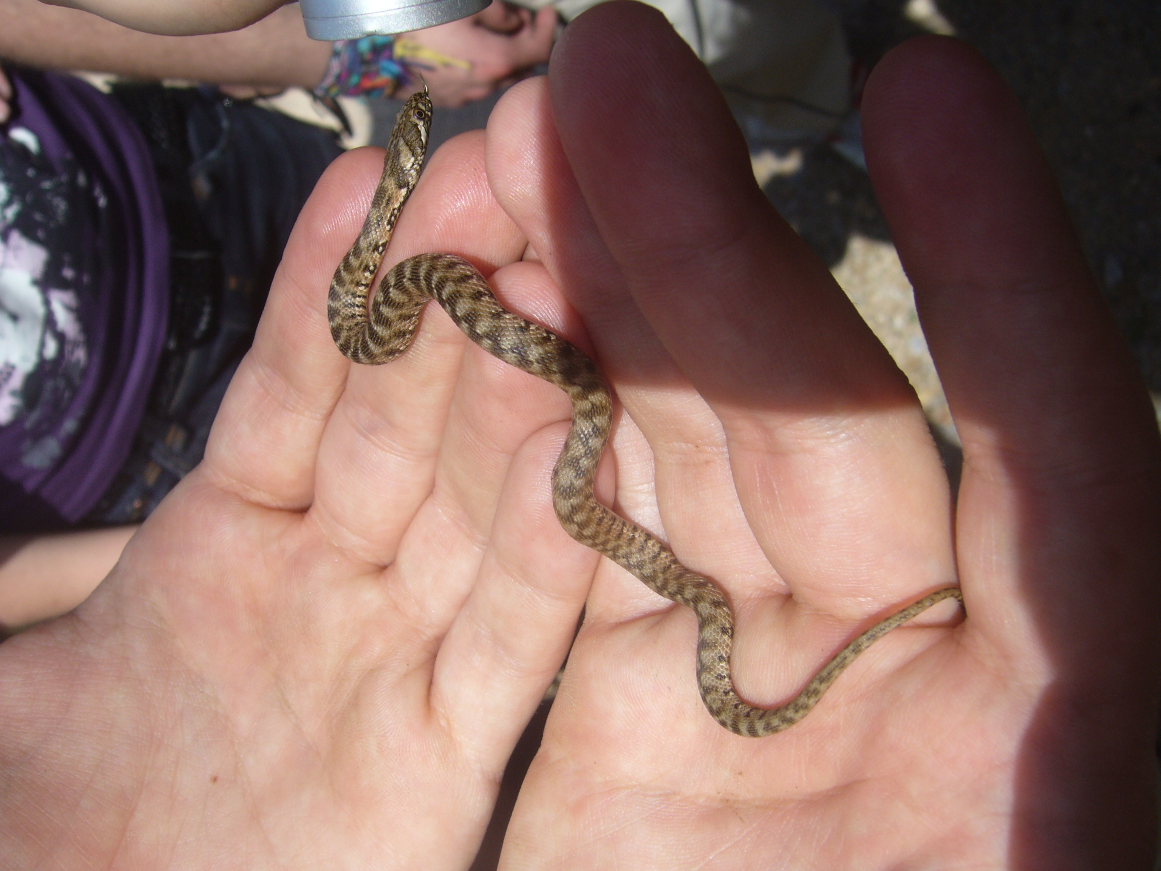 Natrix maura (Viperine water snake) in the Natural Park of Serra de Enciña de Lastra, Orense, Galicia, Spain.